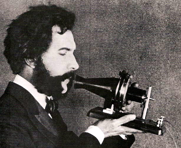 An actor portraying Alexander Graham Bell speaking into a early model of the telephone for a 1926 promotional film by the American Telephone & Telegraph Company (AT&T): see 1926 recreation of Alexander Graham Bell inventing the telephone. AT&T Archives. Archived from the original on 22 June 2011. Retrieved on 22 June 2011.